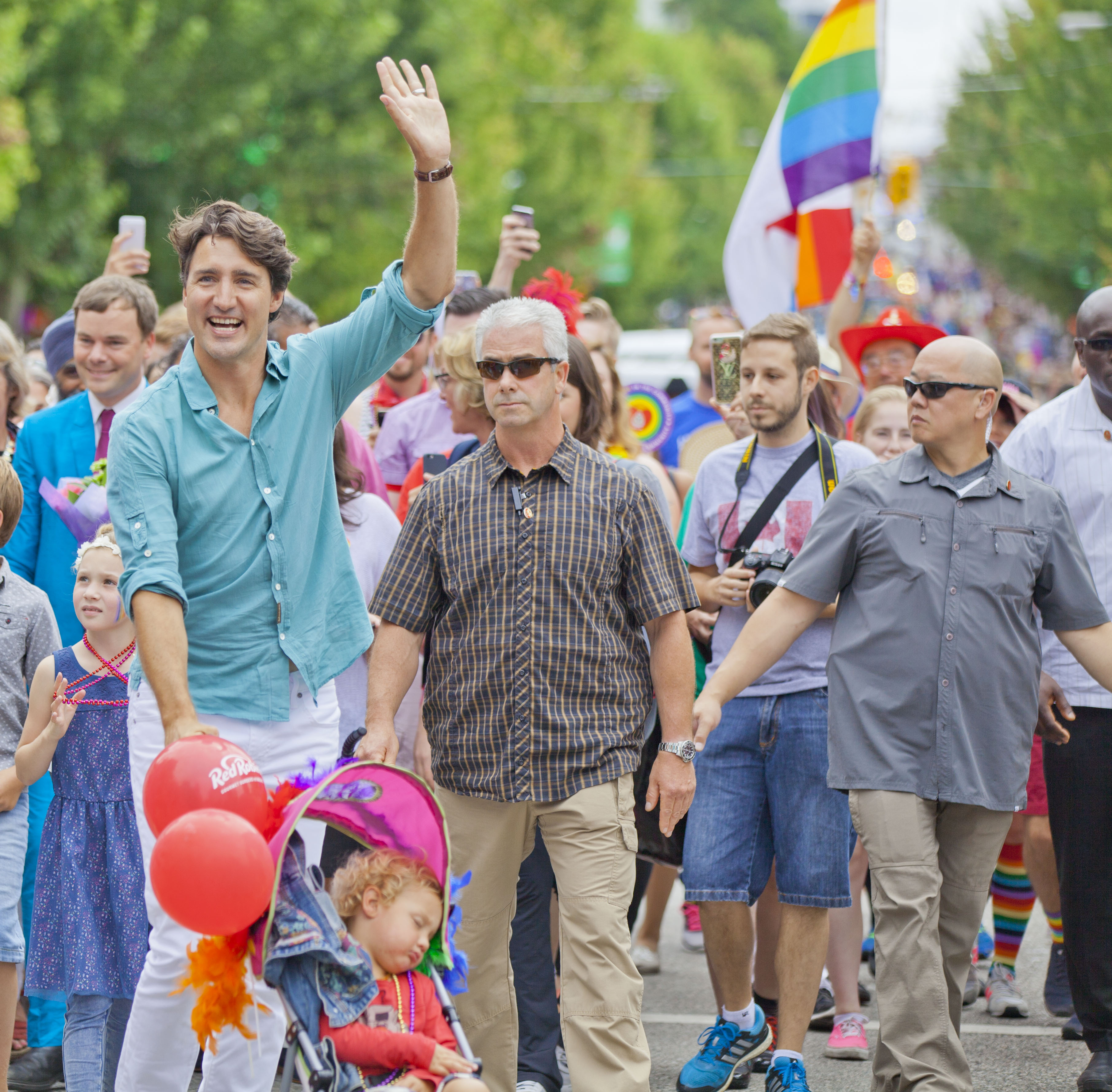 Pride Parade